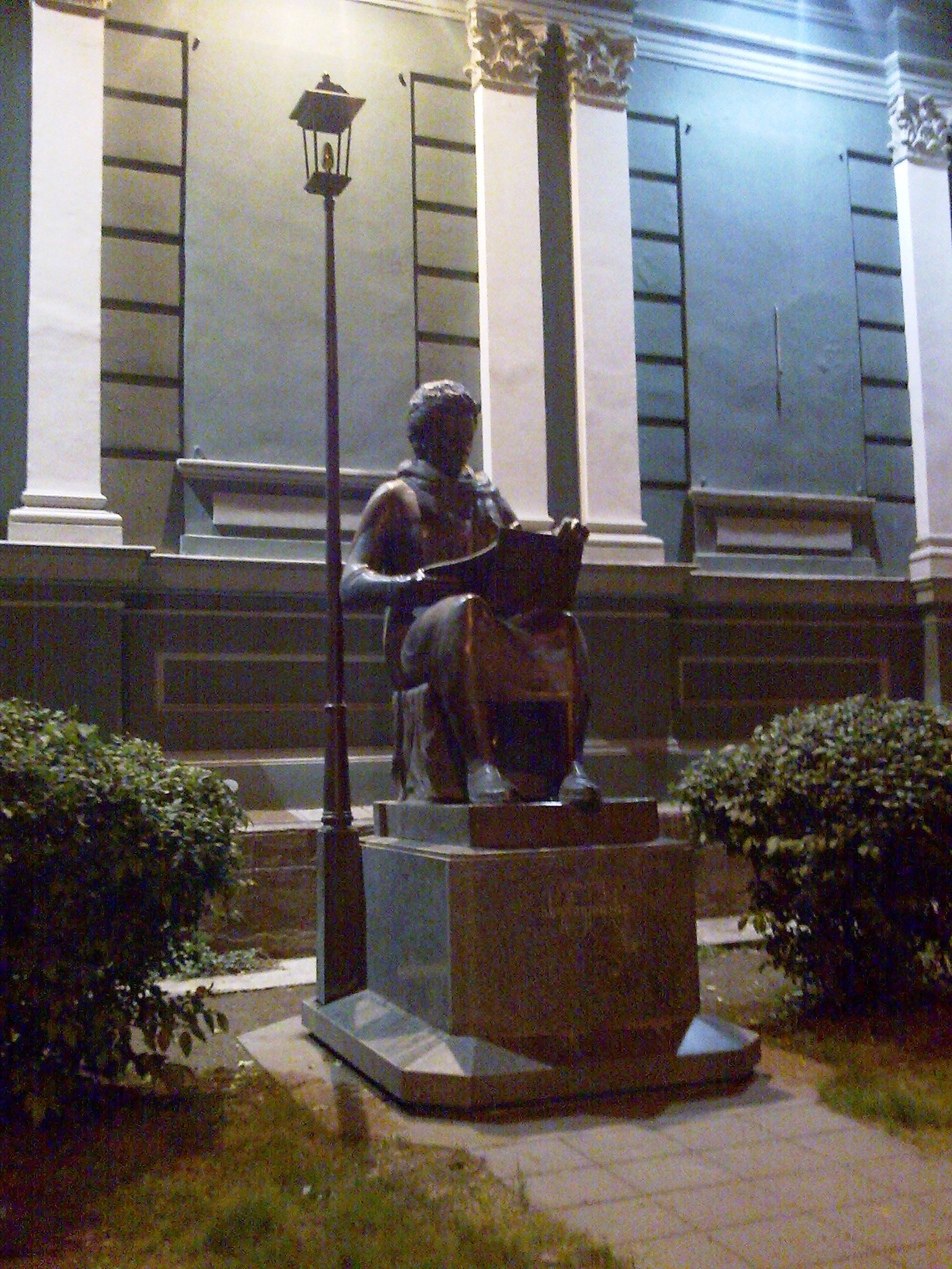 Helene Akhvlediani, a Georgian painter. Statue in front of the National Gallery of Tbilisi, Georgia.